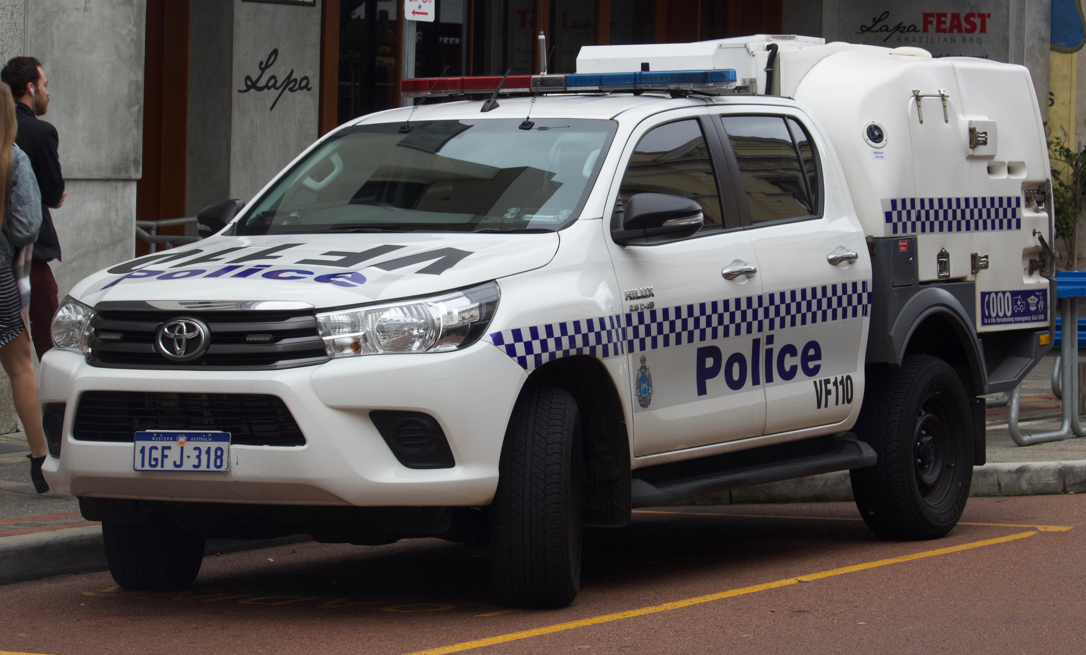 2017 Toyota HiLux (GUN126R) SR 4-door utility, Western Australia Police. Photographed in Fremantle, Western Australia, Australia.